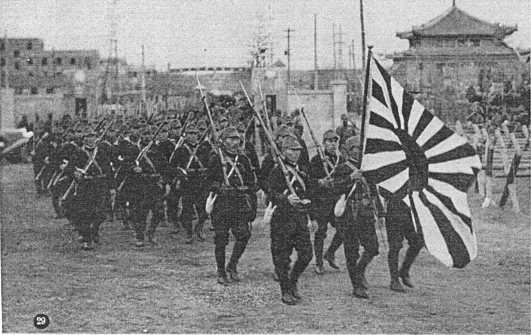 The entry of the Japanese Navy Land Forces into the memorial service ceremonial site of Nanking（December 18, 1937）